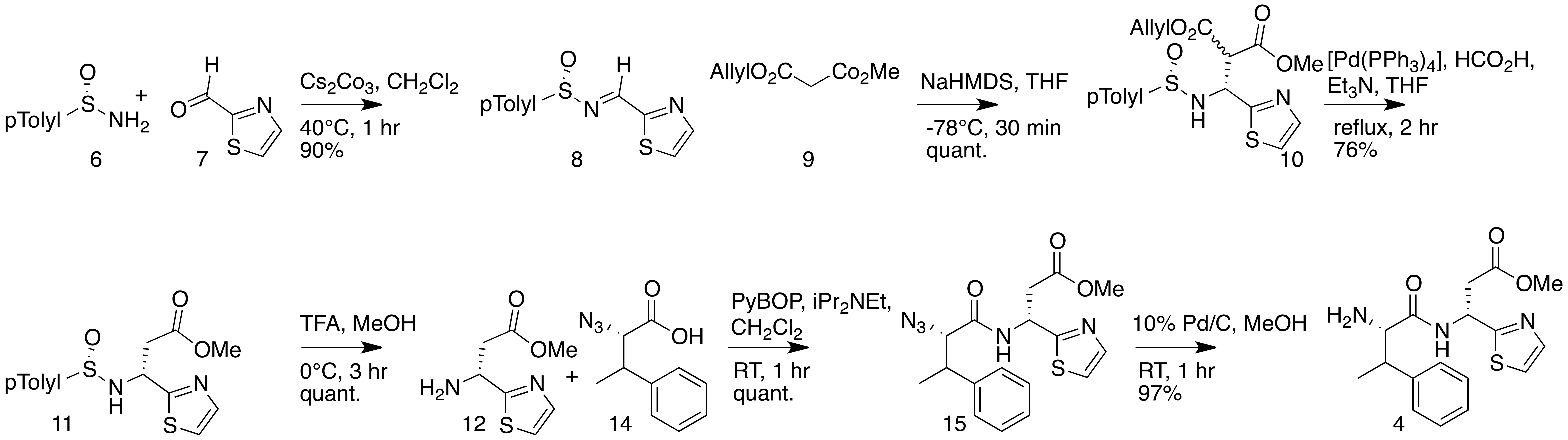 The first part of the bottromycin synthetic scheme as described by (Shimamura, et al. 2009).